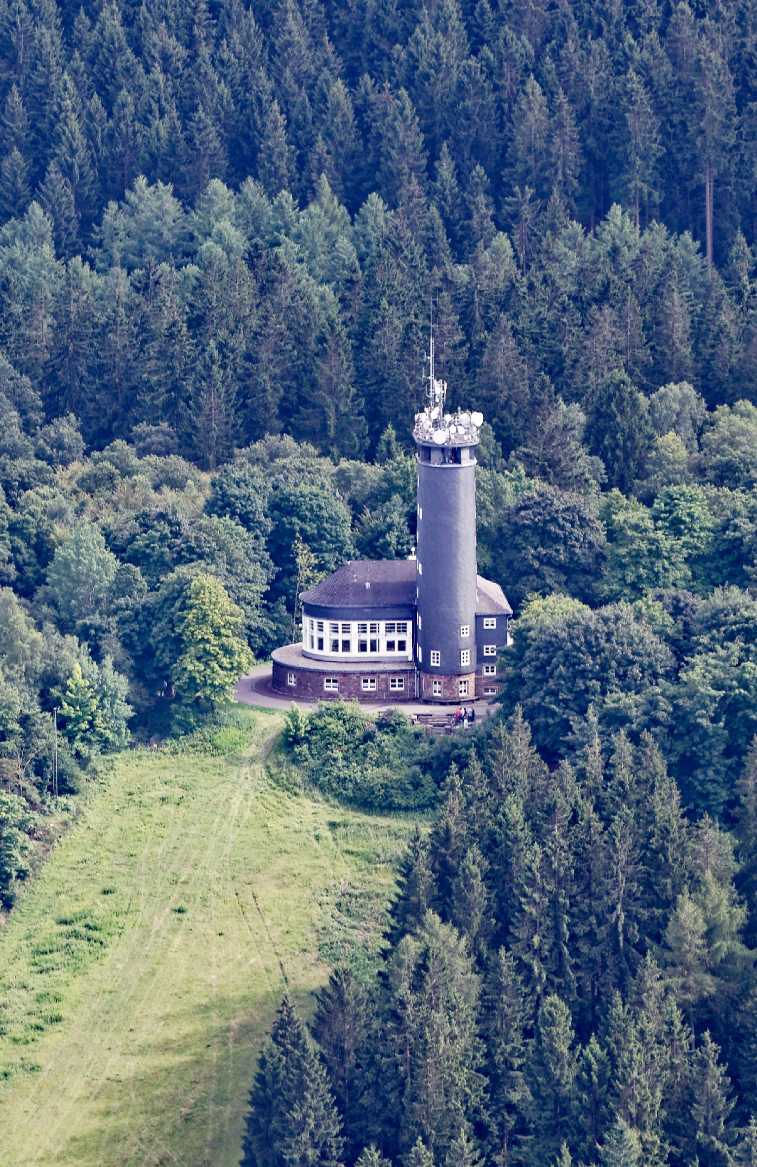 Hohe Bracht auf dem Gipfel des Berges Hohe Bracht in Lennestadt. The making of this document was supported by the Community-Budget of Wikimedia Germany.